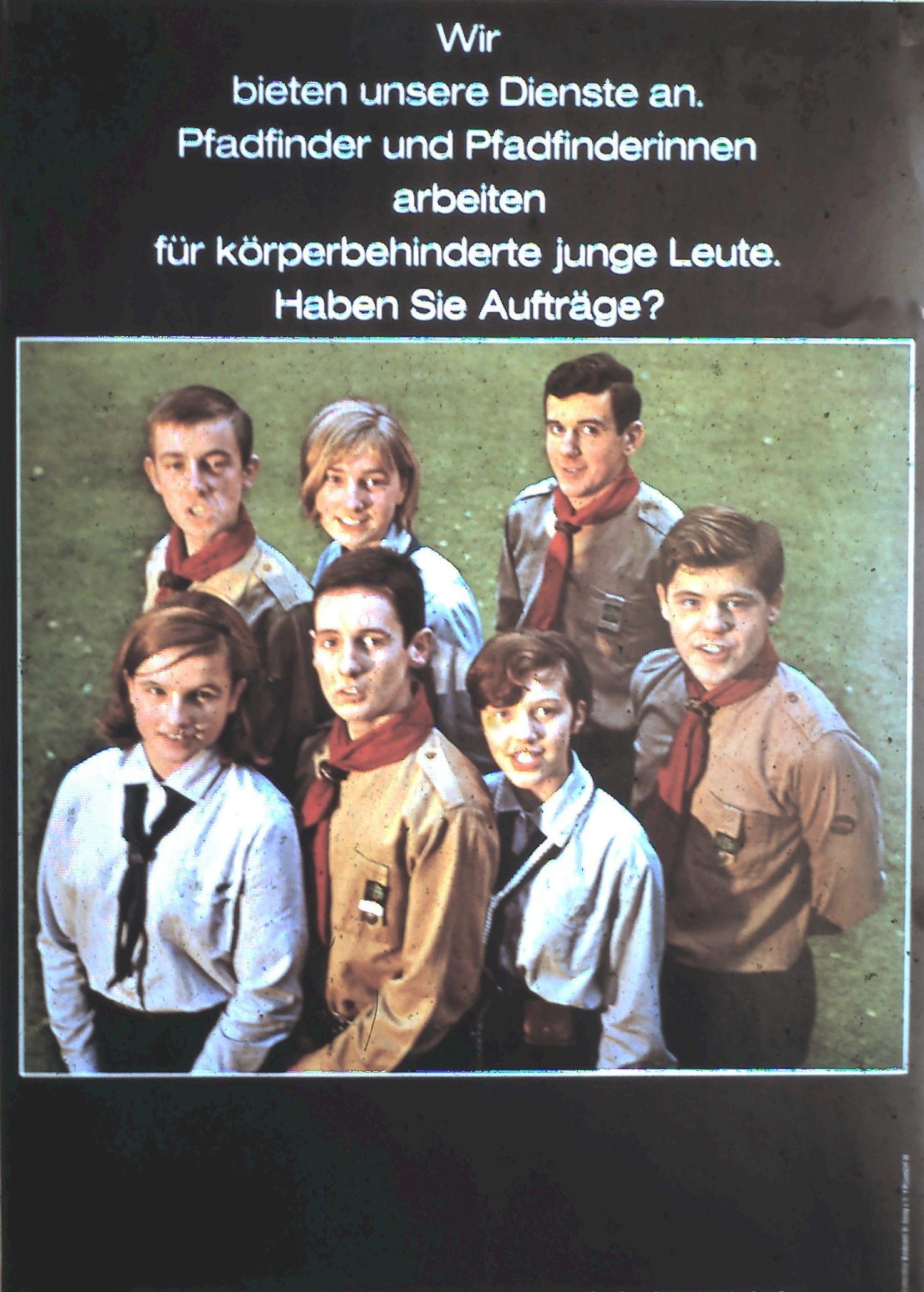 Poster of German scouts in 1967